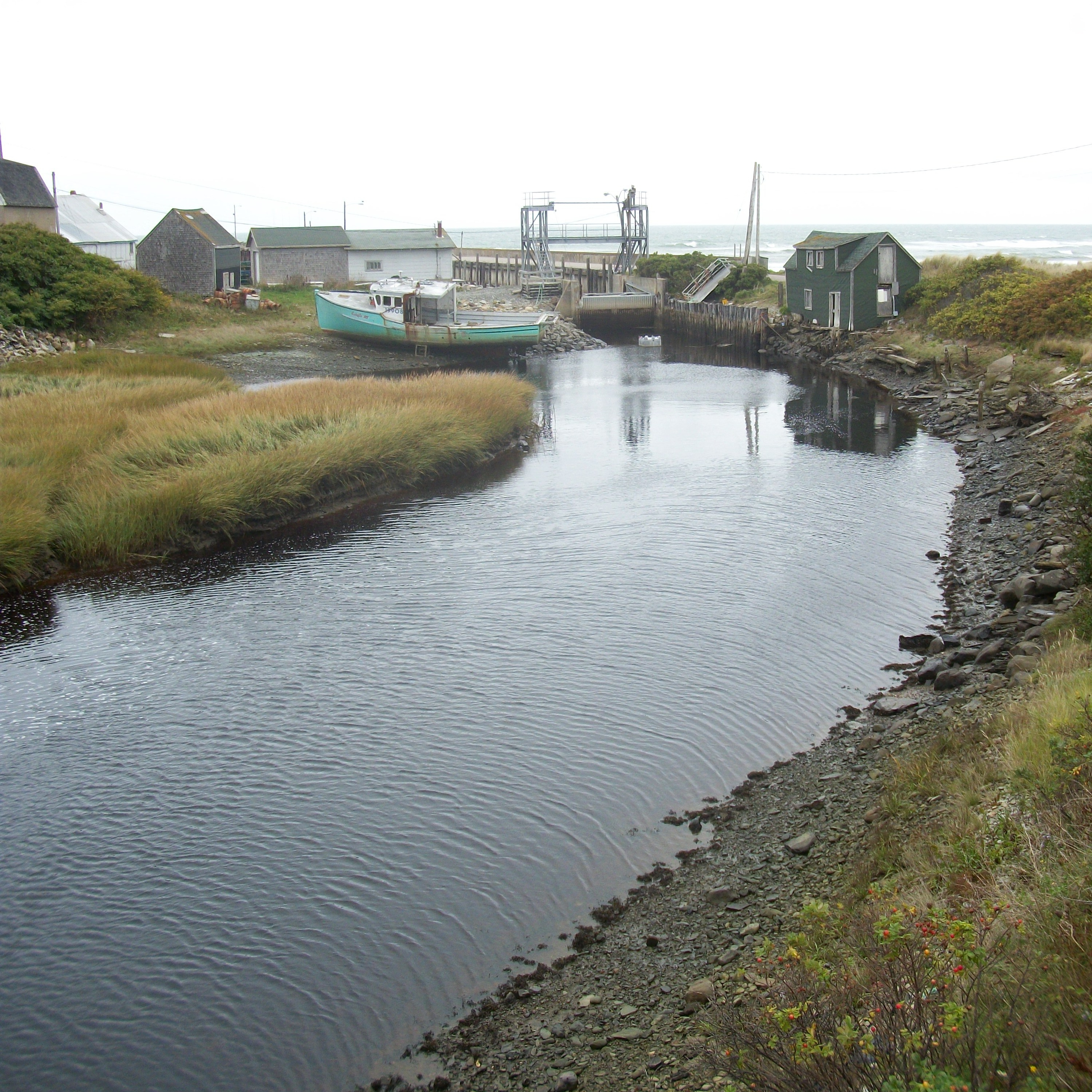 Rivulet at Port Maitland, Yarmouth, NS